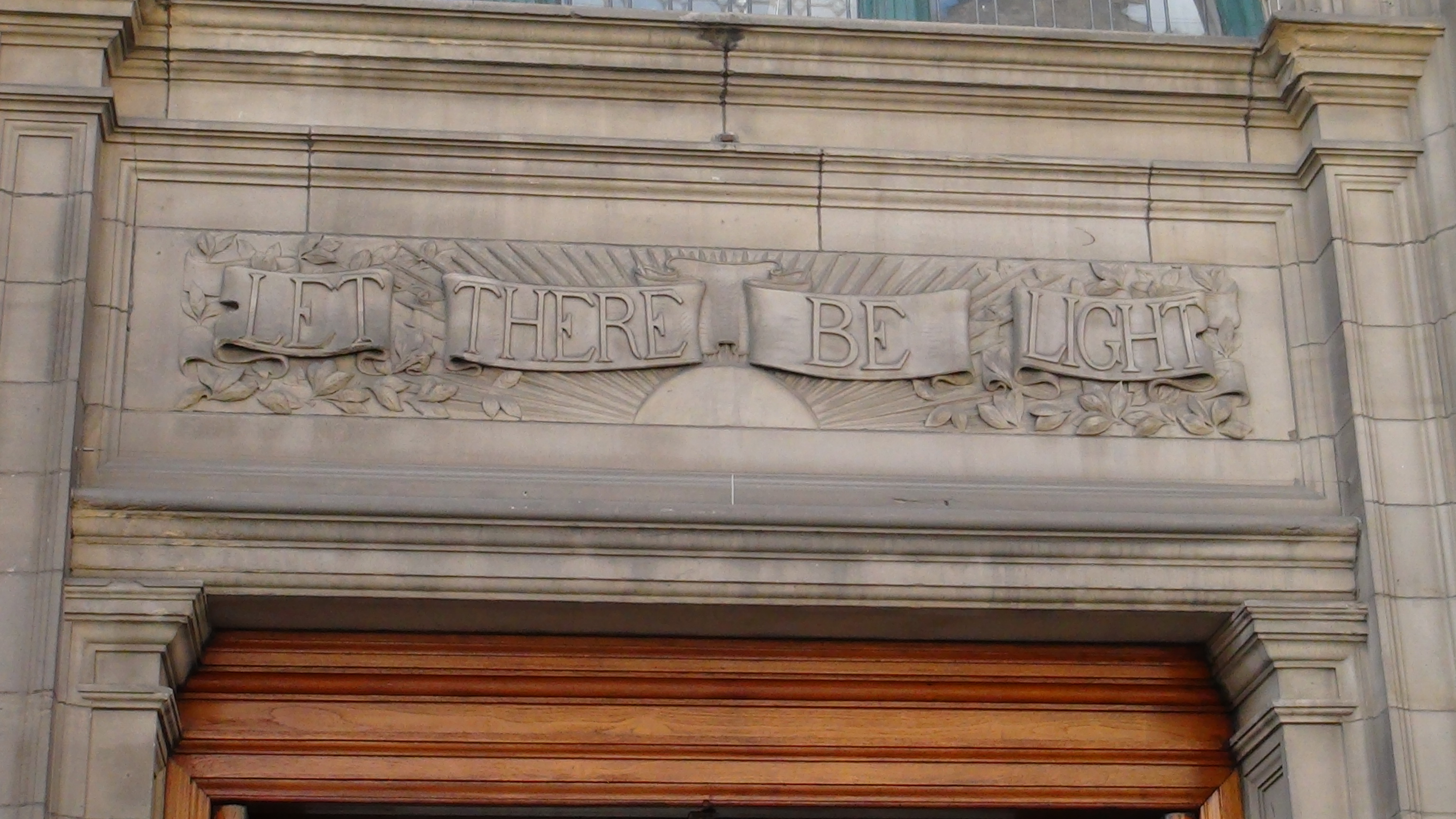 Central Lending Library, Edinburgh, Scotland. A Carnegie library--inscription above the door ; LET THERE BE LIGHT